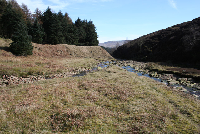 Confluence of Lady Clough and River Ashop The stream running down Lady Clough (left) joins the River Ashop (right) in the valley below the famous Snake Pass Inn.